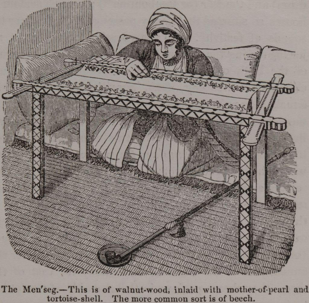 A woman on embroidery, which is stretched out on a frame. Engraving (prints).